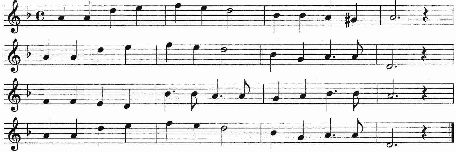 Composition of Taki Rentarô (187-1903), correct Kôjô